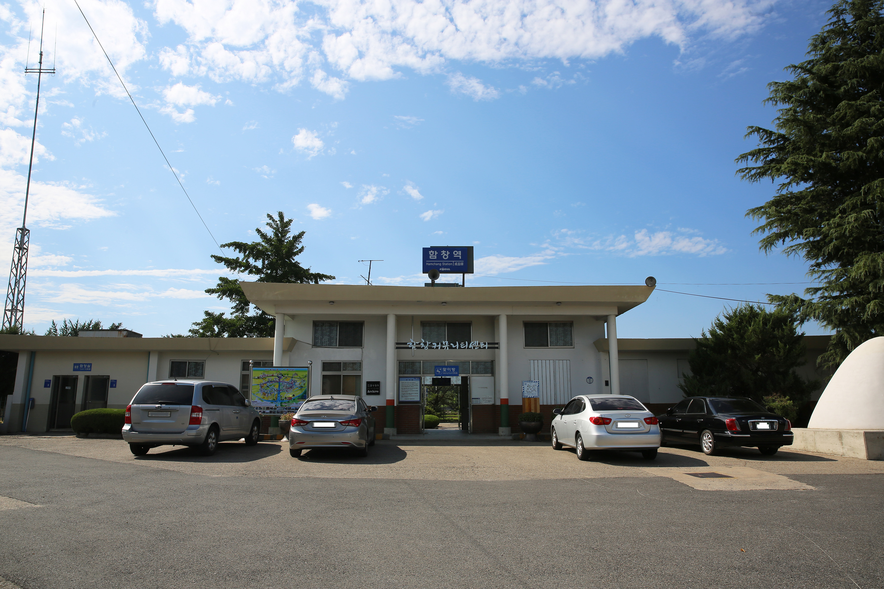 Obverse of Building from the Square of Hamchang Station